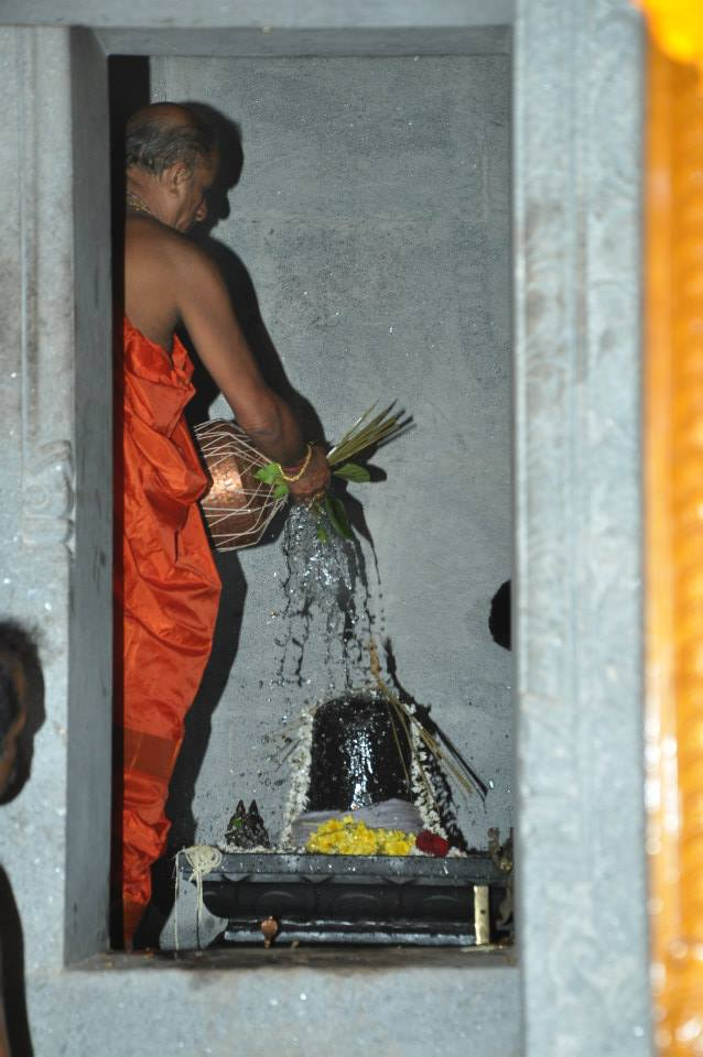 Lord Shiva